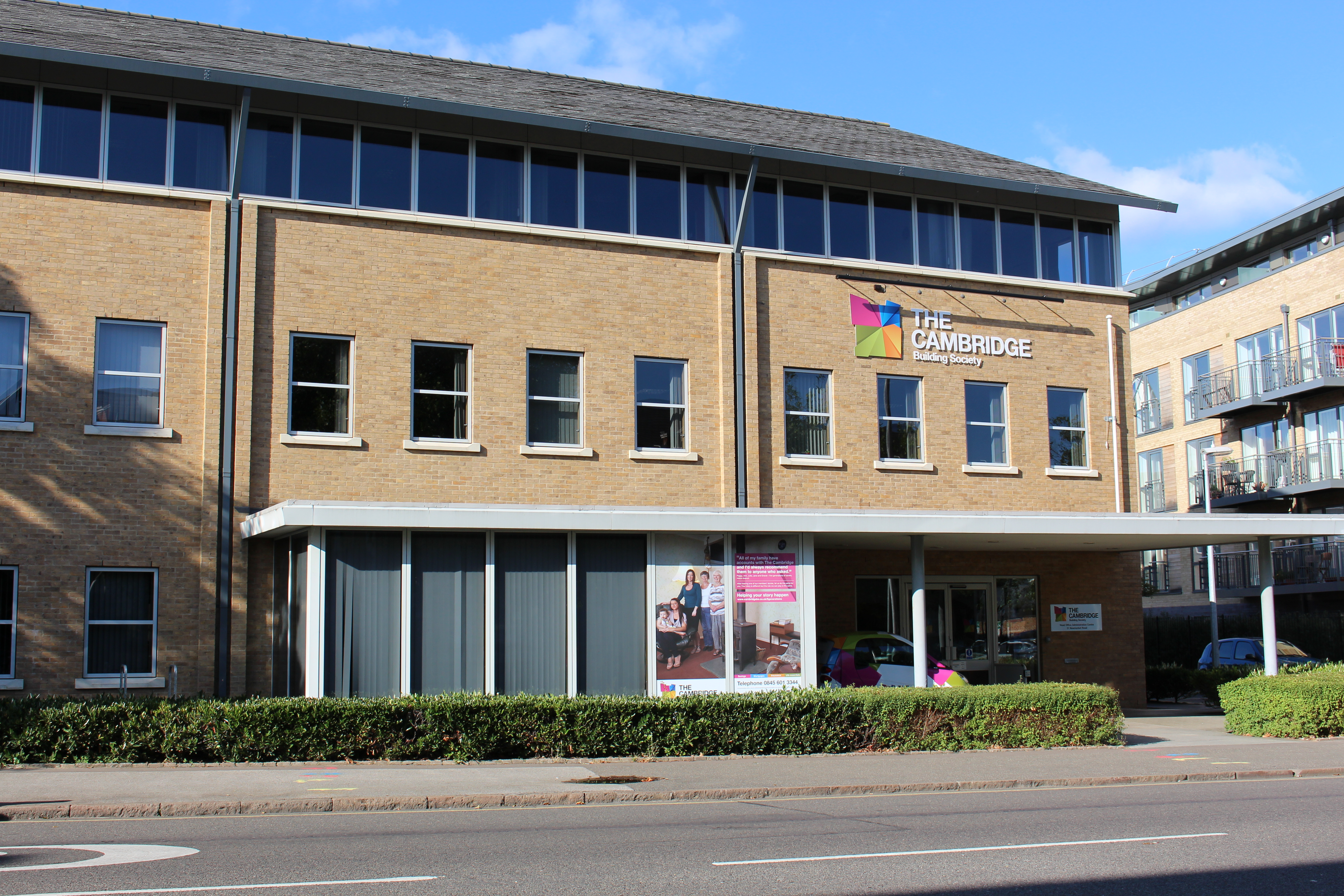 The Cambridge Building Society Head Office, on Newmarket Road